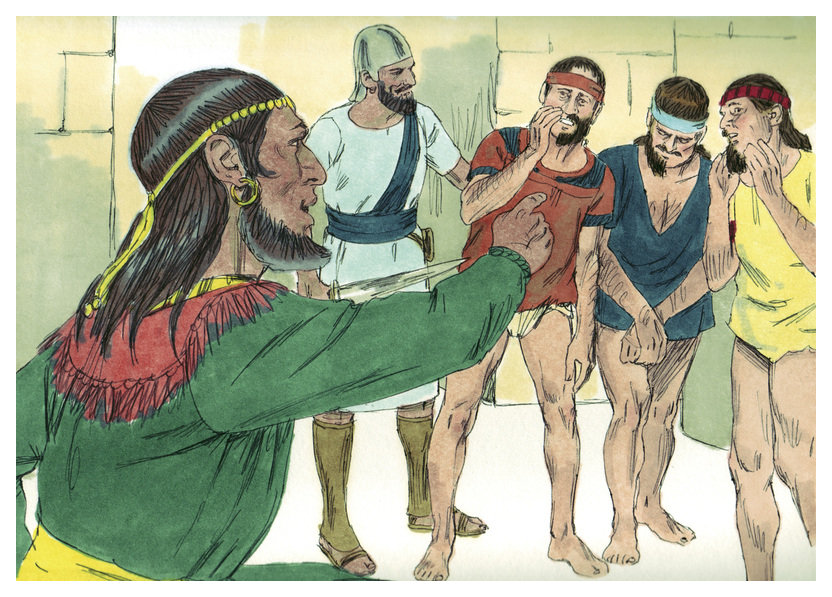 Biblical illustration of First Book of Chronicles Chapter 19